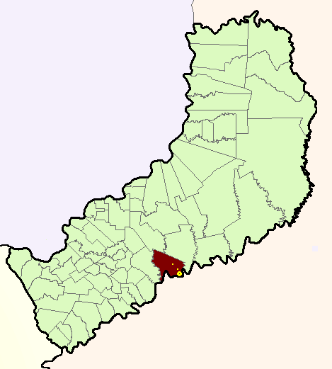 A map of Alba Posse's municipio in Misiones province, Argentina. The big point is Alba Posse town, the tiny North point is San Francisco de Asís town, the tiny South point is Santa Rita town.